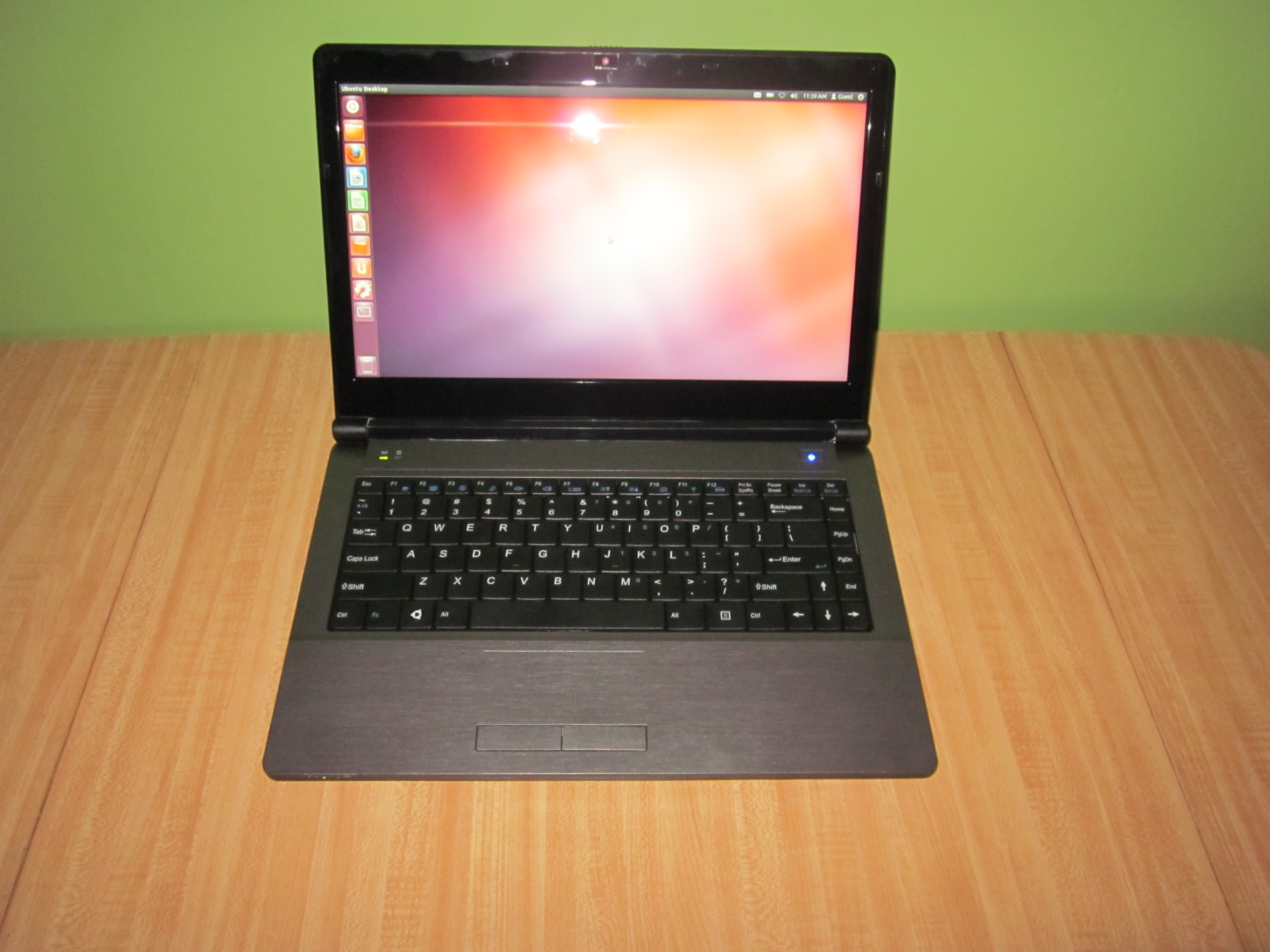 System76 Lemur Ultra 4 laptop